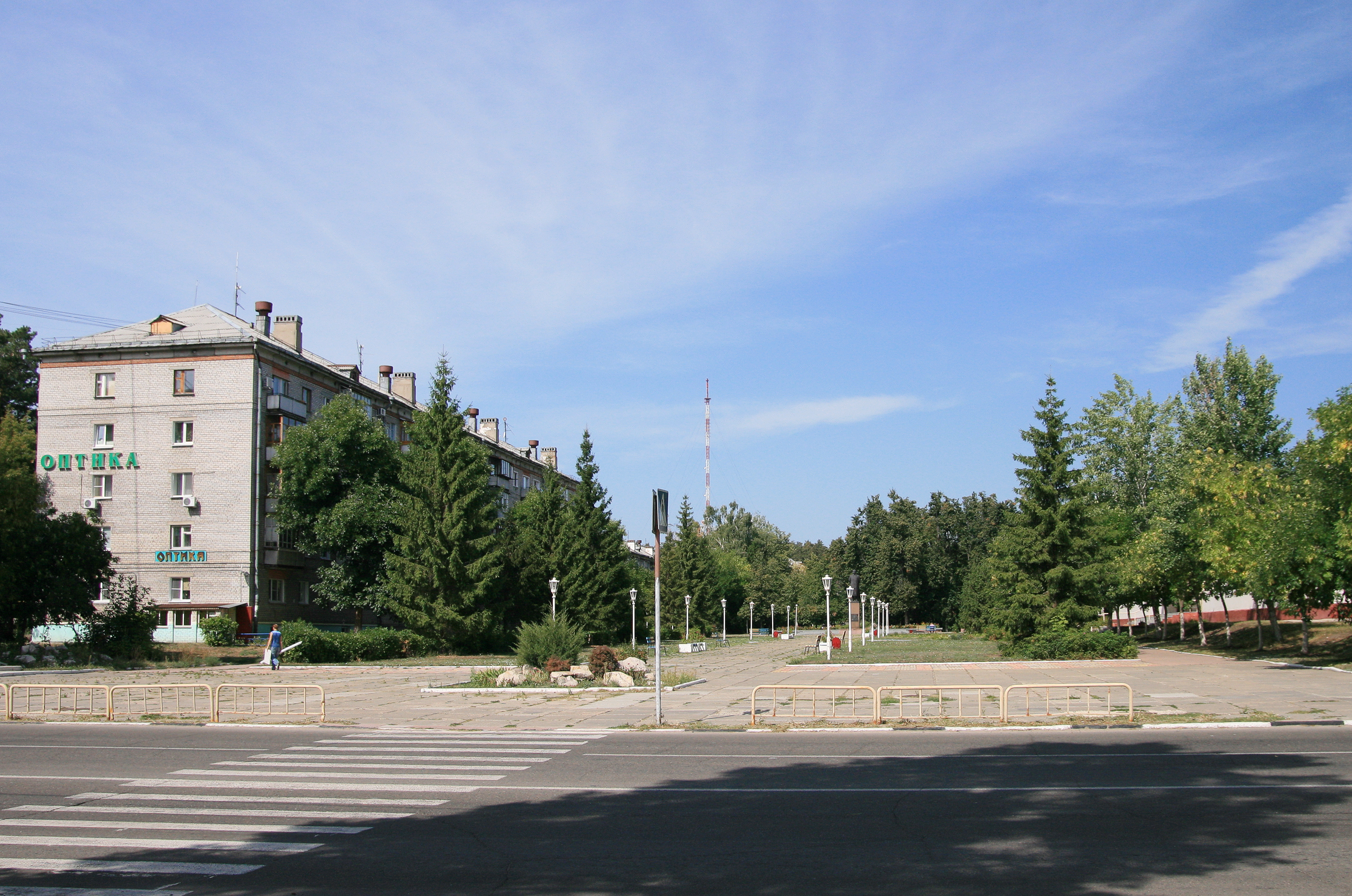 Tereshkova Street, Dimitrovgrad, Ulianovsk Oblast, Russia